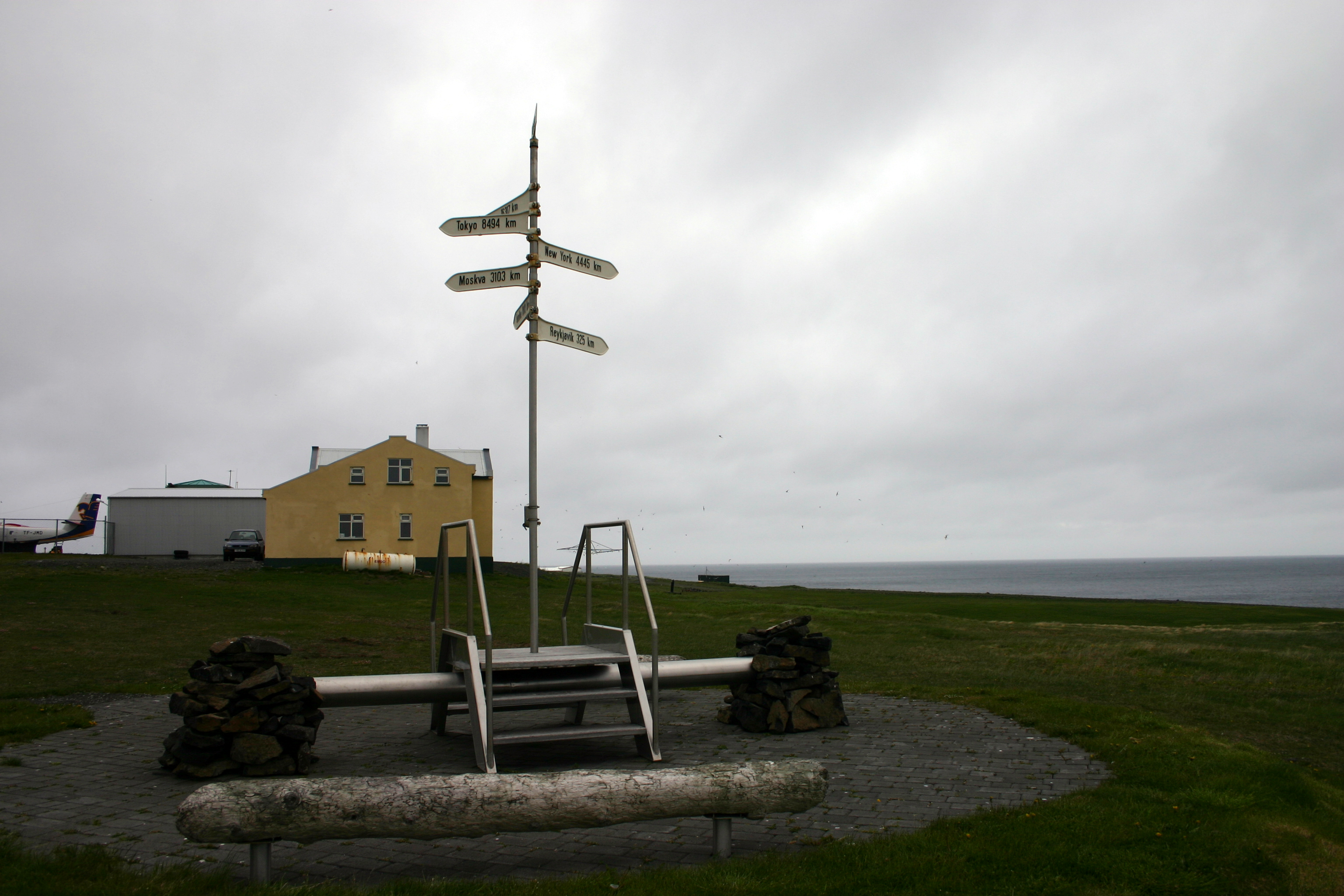 Arctic Circle on Grimsey Island, Iceland. June 2008.